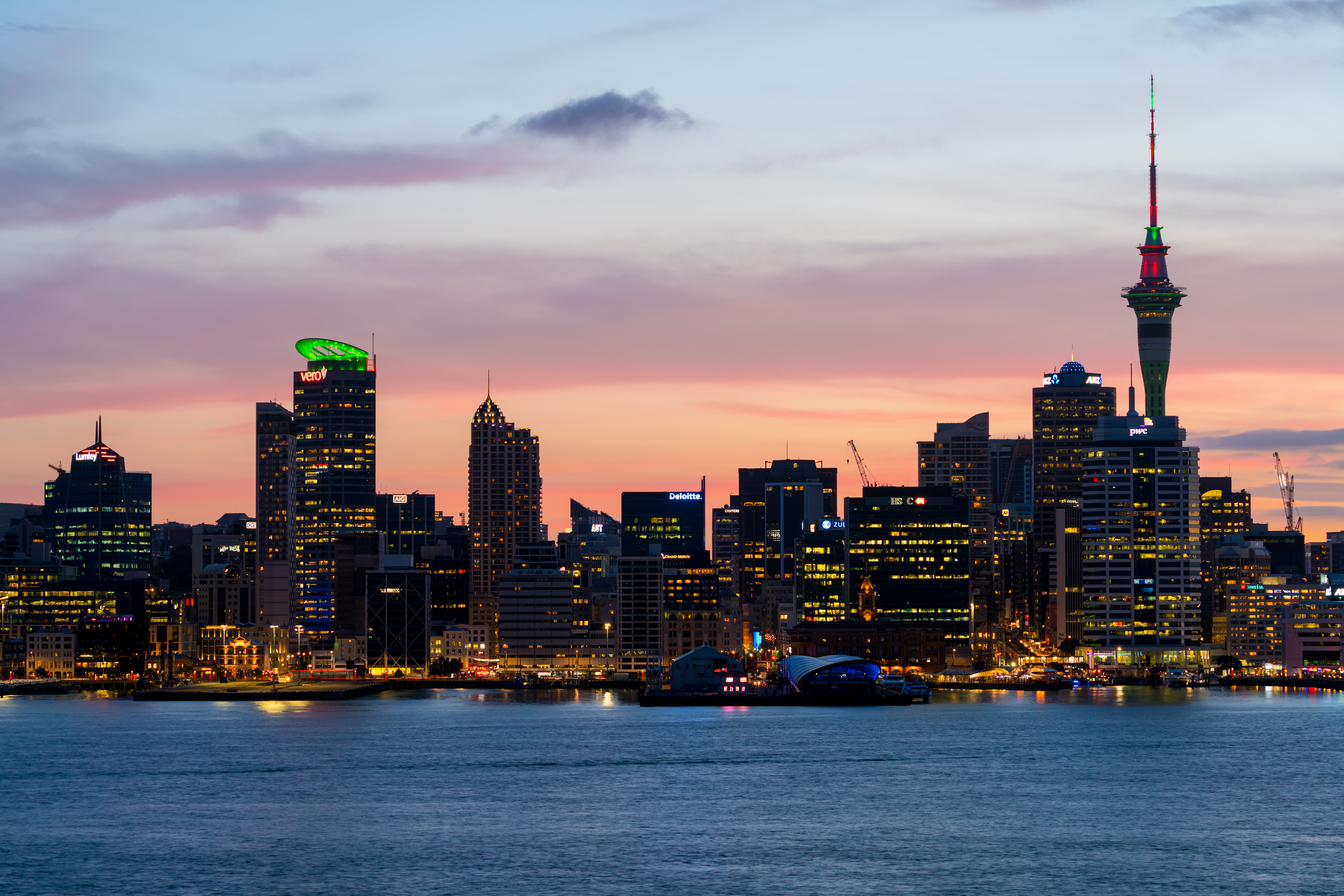 View of Auckland Sklyline